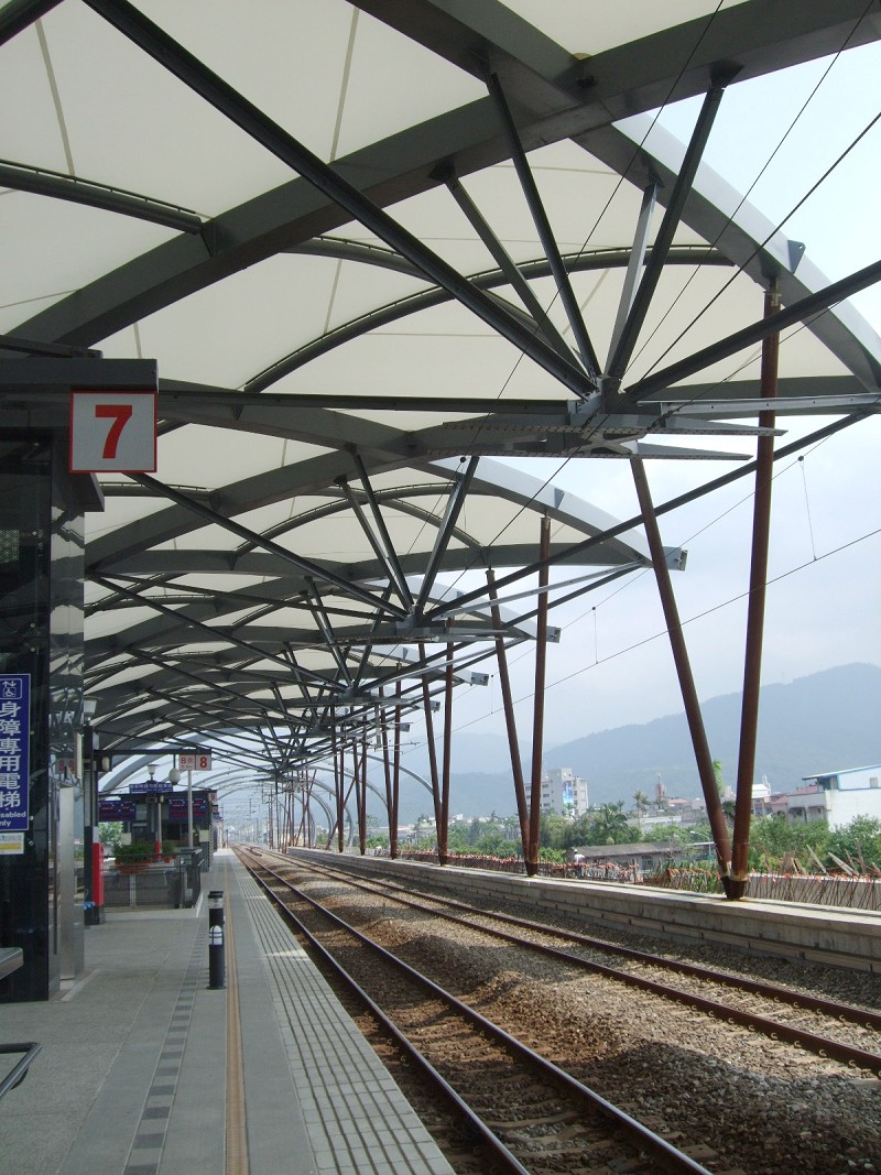 Taiwan Railway Administration Dongshan Station